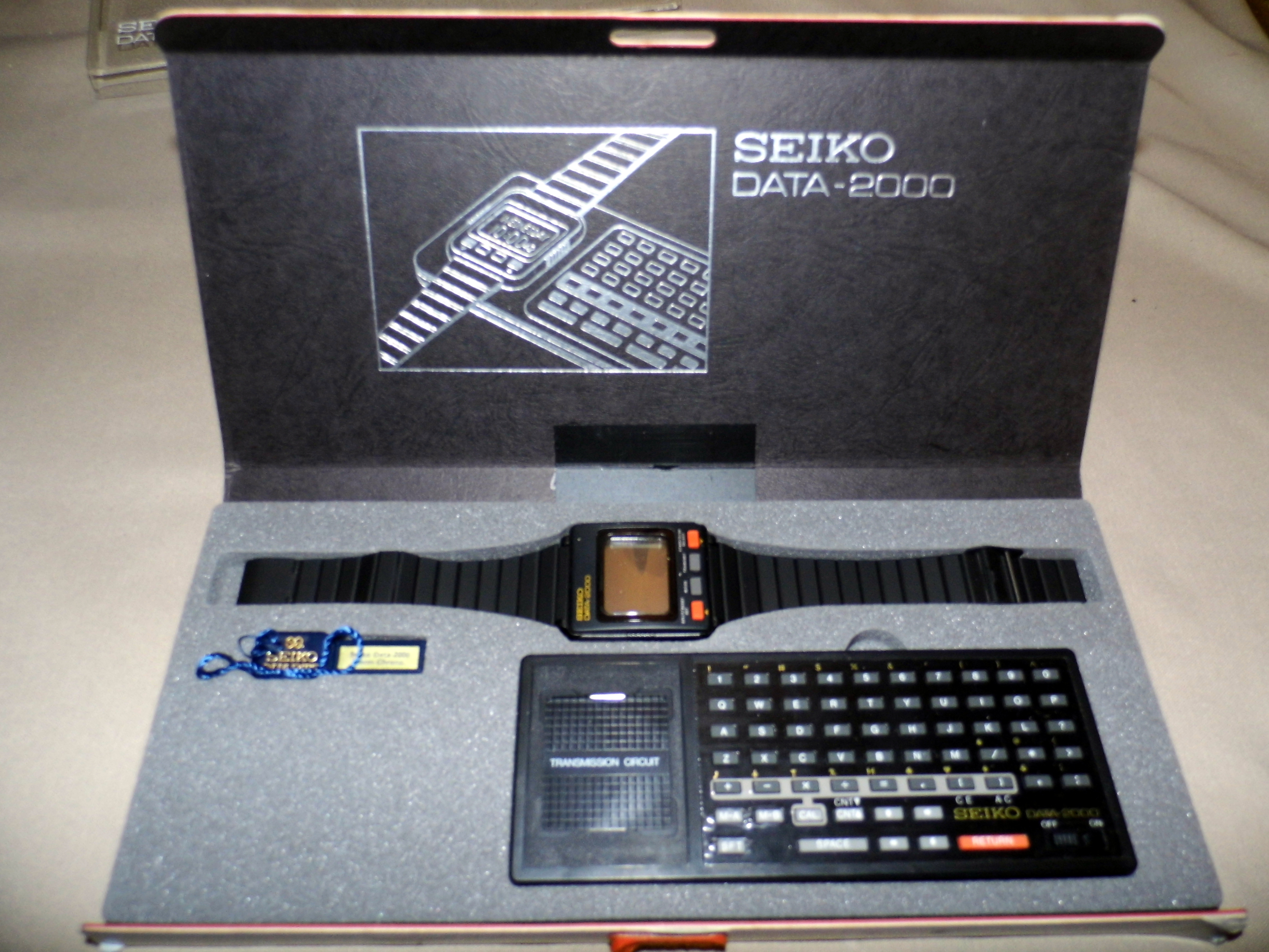 The Seiko Data-2000 functioned like a miniature wrist-mounted data storage device. To input data, the user set it on a special keypad that transferred your tip-tap-typings to the Data 2000's memory through magnetic pulses. The user could then view the data on the watch's 4x10 character display at any time.